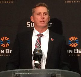 Blake Anderson, head coach of the Arkansas State Red Wolves football team, at the 2015 Sun Belt Conference Media Day in the Mercedes-Benz Superdome in New Orleans.